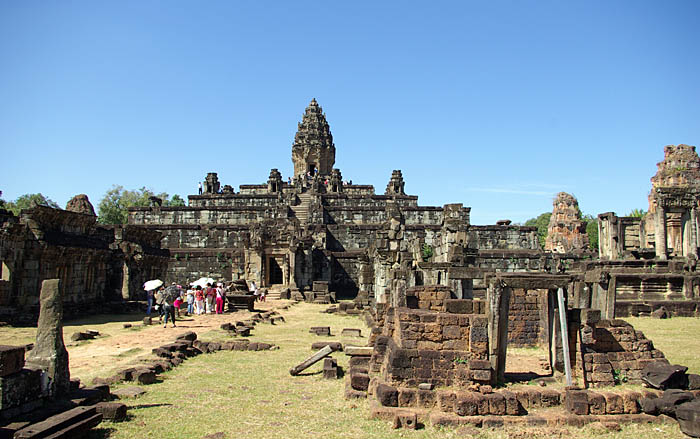 Temple of Bakong (Roluos Group), east of Siem Reap, Cambodia